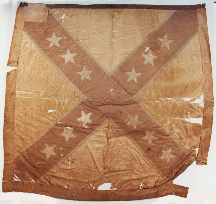 15th Alabama Infantry flag, Alabama Department of Archives and History